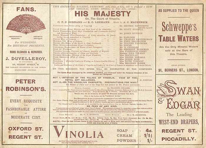 First night theatre programme from His Majesty at the Savoy Theatre, 20 February 1897. The scan is online here: Public domain.